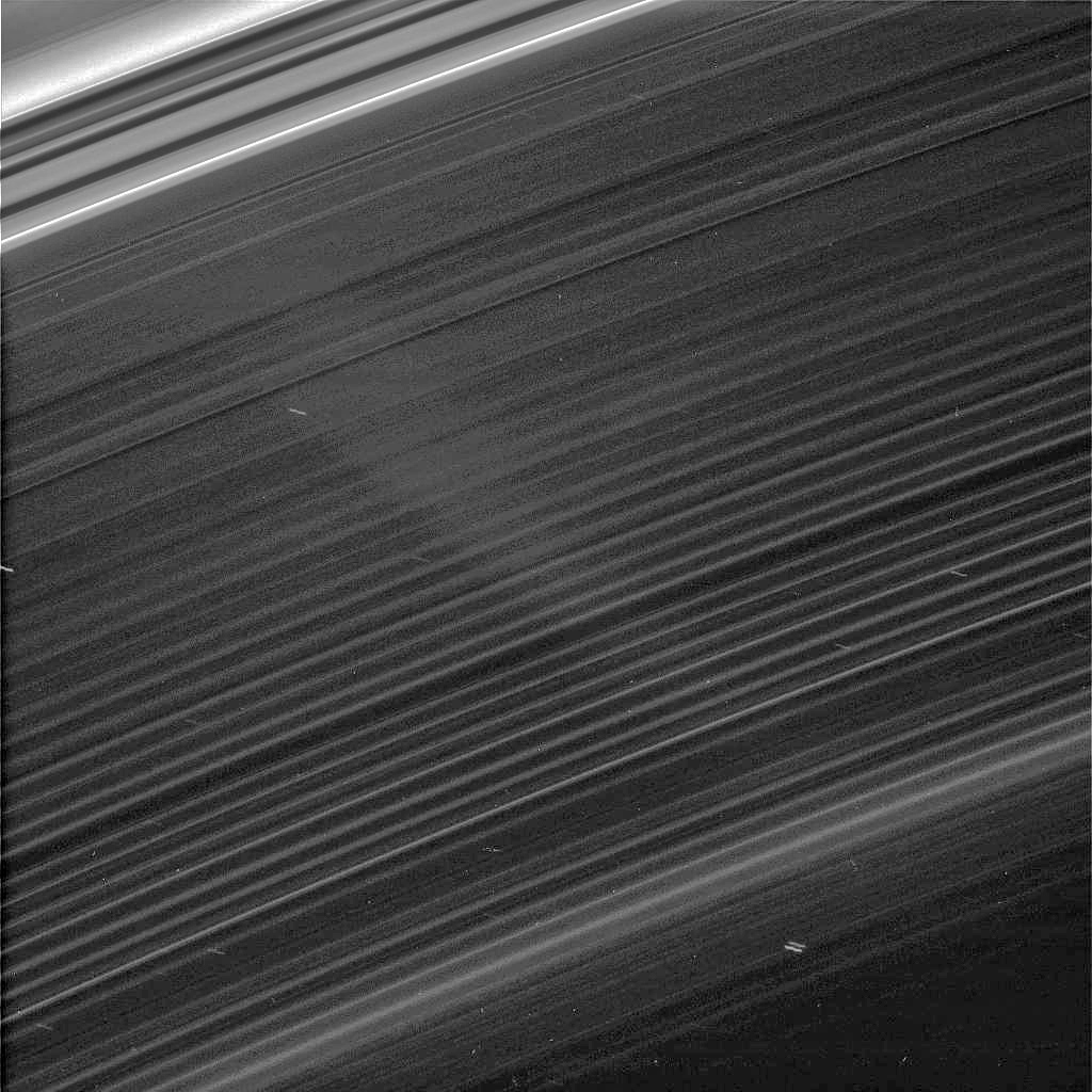 Faint features in Saturn's innermost ring, the D ring, are brought into view in this strongly contrast-enhanced Cassini image. A few background stars are visible through the sheer ring as squiggly star trails. The inner region of the C ring is seen at upper left. The faint diagonal wedge shape on the left side of the image was caused by stray light in the camera optics. The view looks toward the sunlit side of the rings from about 18 degrees below the ringplane. The image was taken in visible light with the Cassini spacecraft narrow-angle camera on June 12, 2007 at a distance of approximately 238,000 kilometers (148,000 miles) from Saturn. Image scale is 1 kilometer (0.6 miles) per pixel. The Cassini-Huygens mission is a cooperative project of NASA, the European Space Agency and the Italian Space Agency. The Jet Propulsion Laboratory, a division of the California Institute of Technology in Pasadena, manages the mission for NASA's Science Mission Directorate, Washington, D.C. The Cassini orbiter and its two onboard cameras were designed, developed and assembled at JPL. The imaging operations center is based at the Space Science Institute in Boulder, Colo. For more information about the Cassini-Huygens mission visit The Cassini imaging team homepage is at The NASA image has been modified by further processing to bring out the dim D ring features without overexposing the much brighter C ring in the upper left.